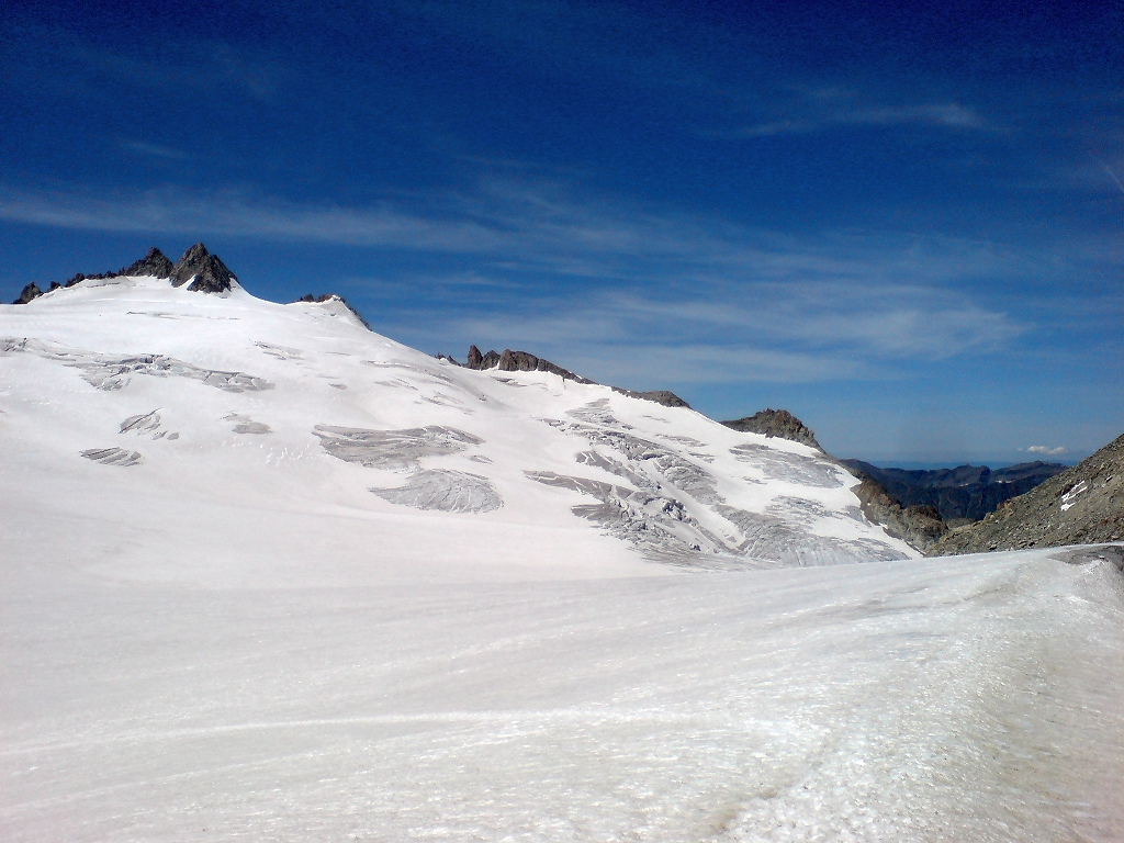 Glacier du Trient, Aiguille du Tour, above Champex